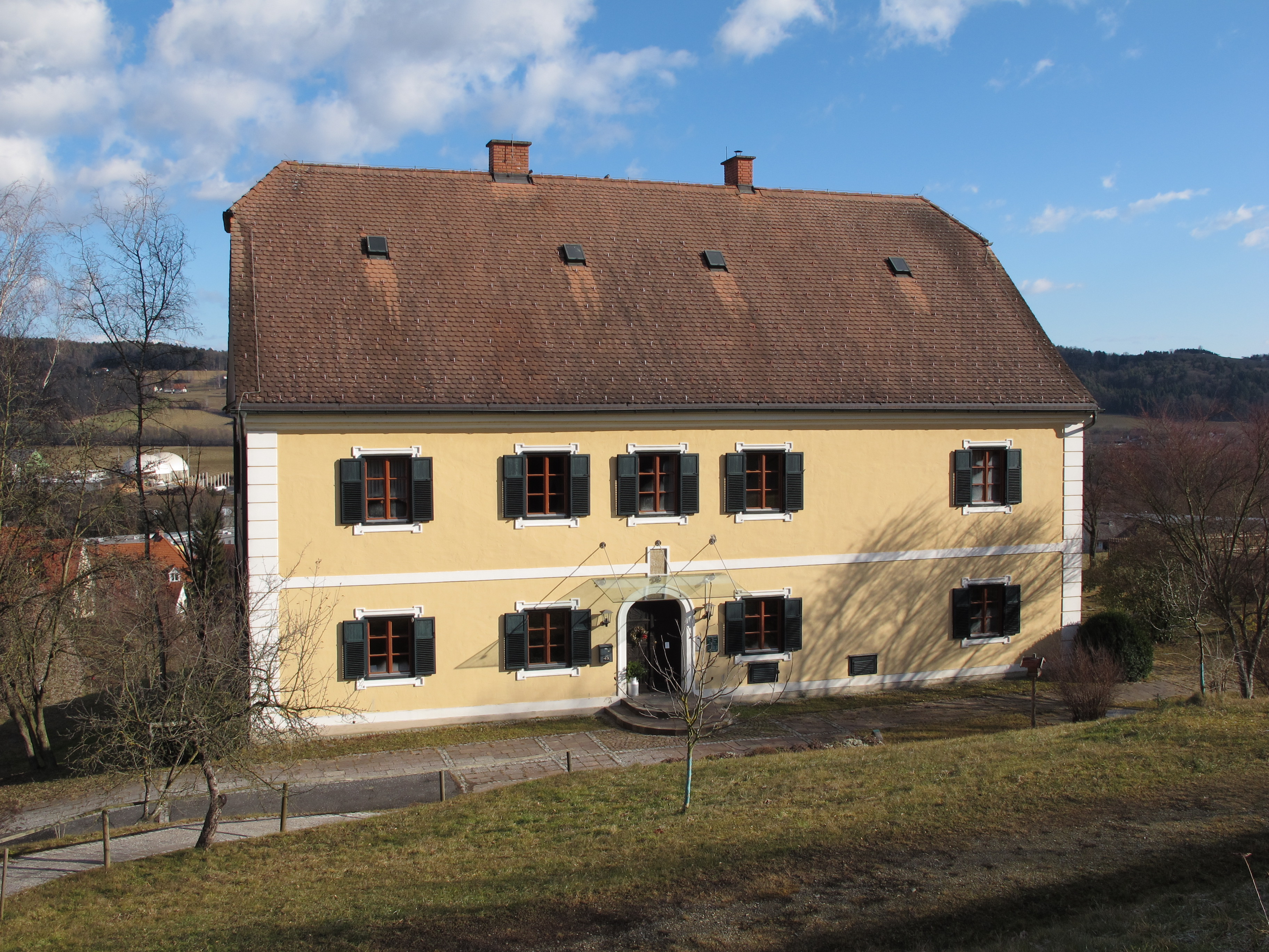 Pfarrhof St. Margarethen an der Raab